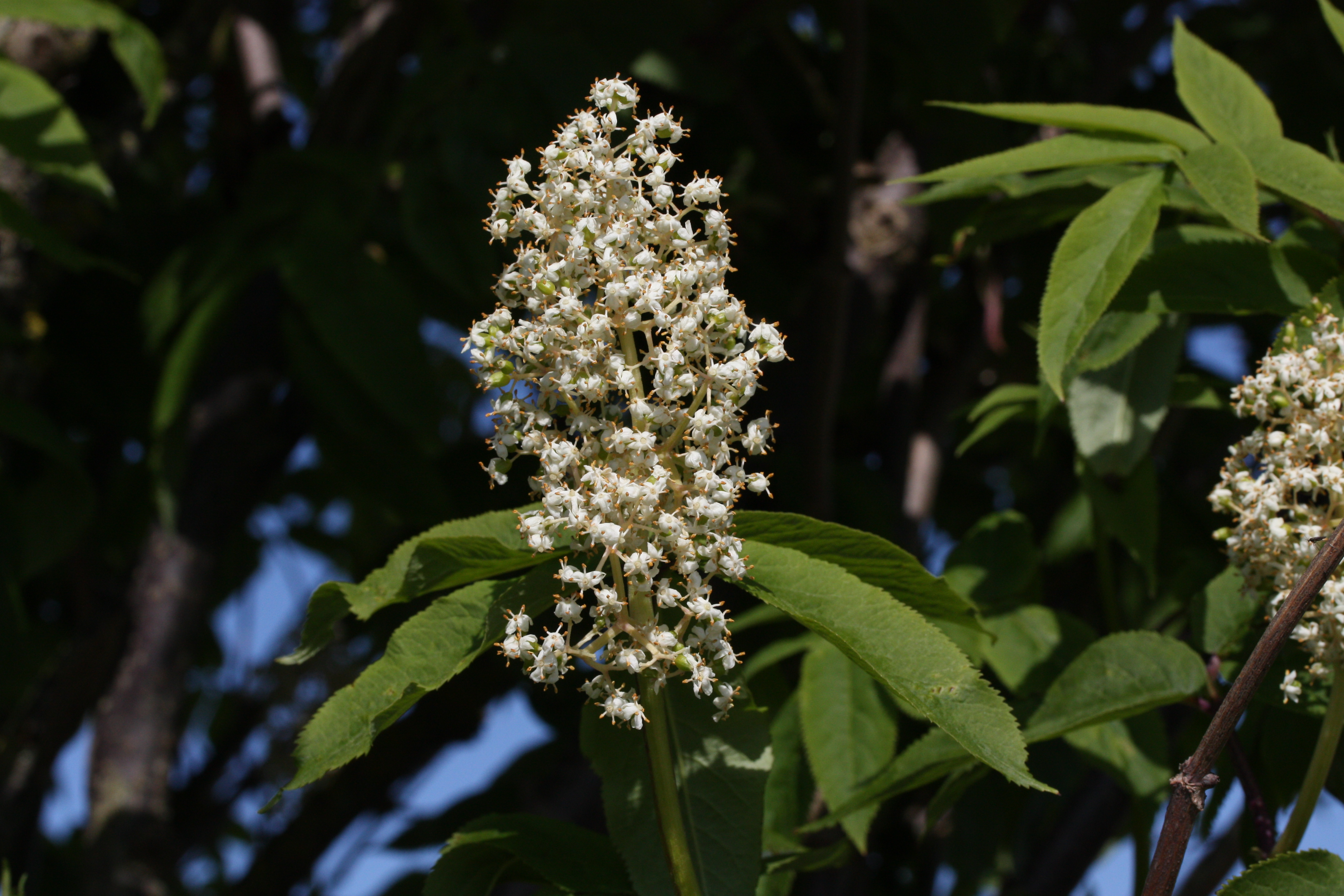 Red Elderberry, Coast Red Elderberry Full Name with Authors: Sambucus racemosa L. ssp. pubens (Michx.) House var. arborescens (Torr. & Gray) Gray